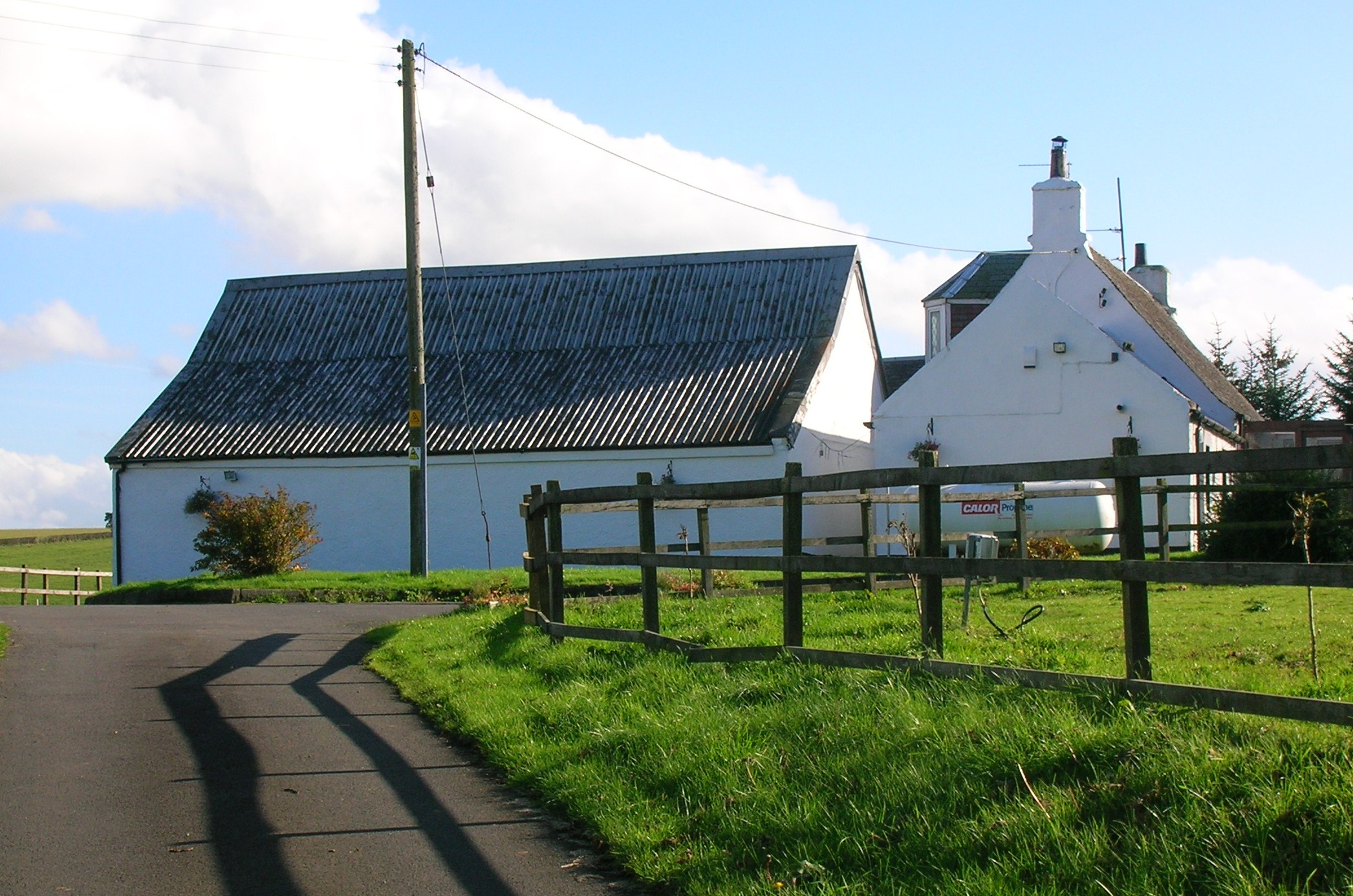 Craighead Farm, Dalry, North Ayrshire, Scotland